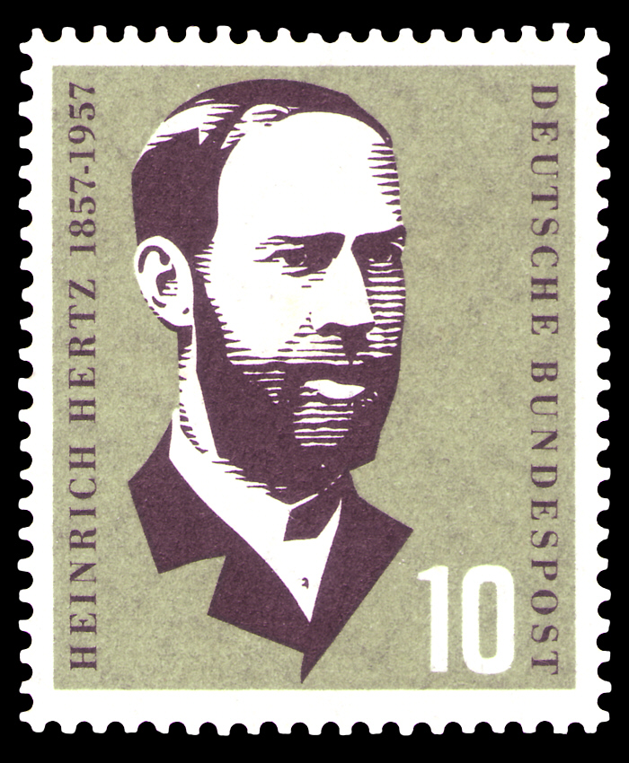 stamp for 100 years of birth, Heinrich Hertz (1857-1894) Graphics by Müller und Blase Ausgabepreis: 10 Pfennig First Day of Issue / Erstausgabetag: 22. Februar 1957 Michel-Katalog-Nr: 252